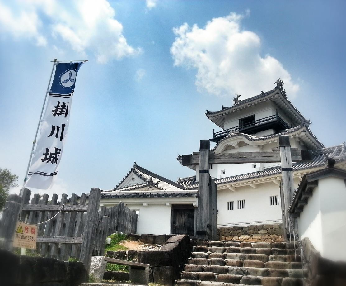 Kakegawa Castle